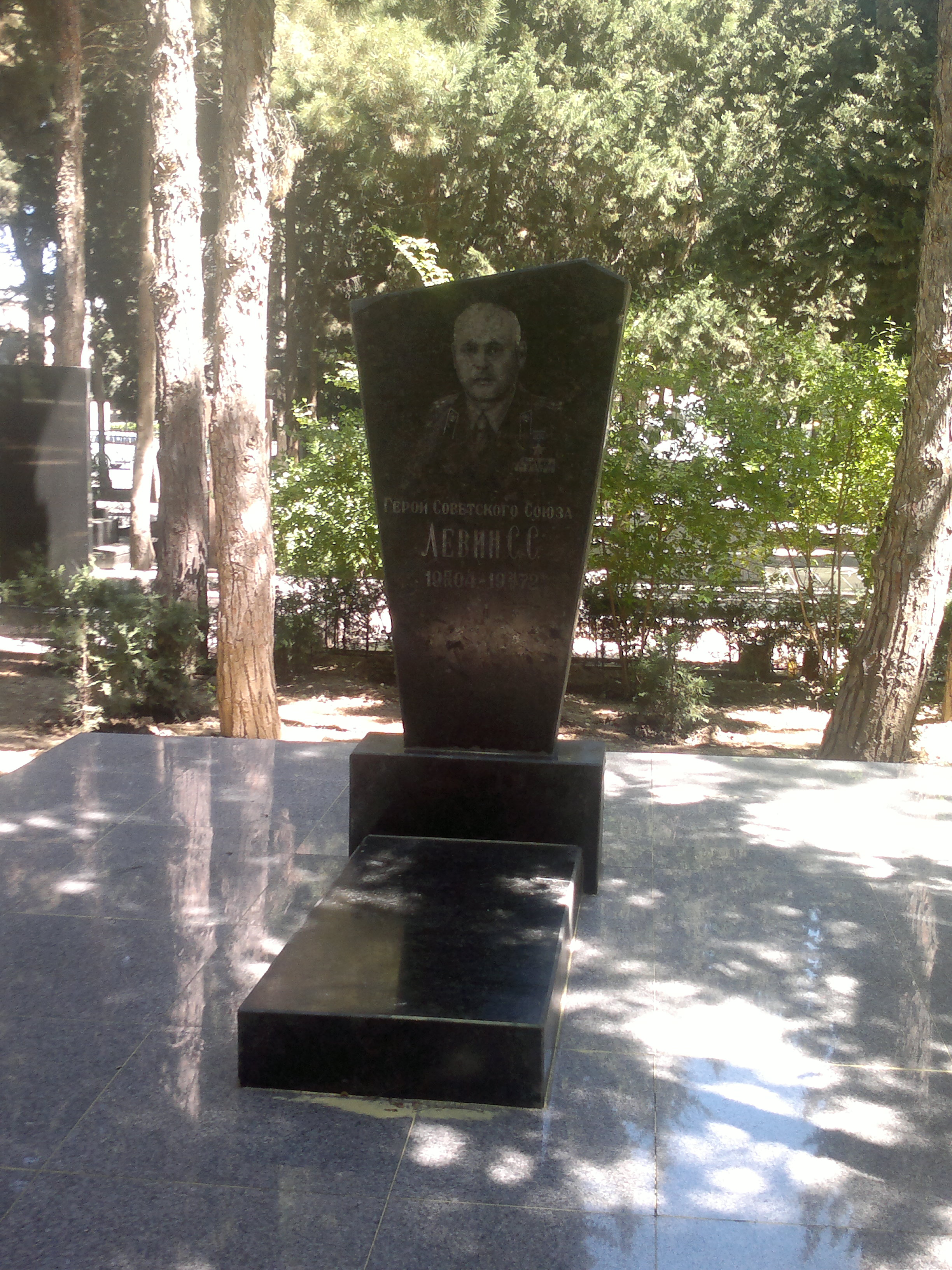 Burial of Semen Levin at Alley of Honor (Azerbaijan)